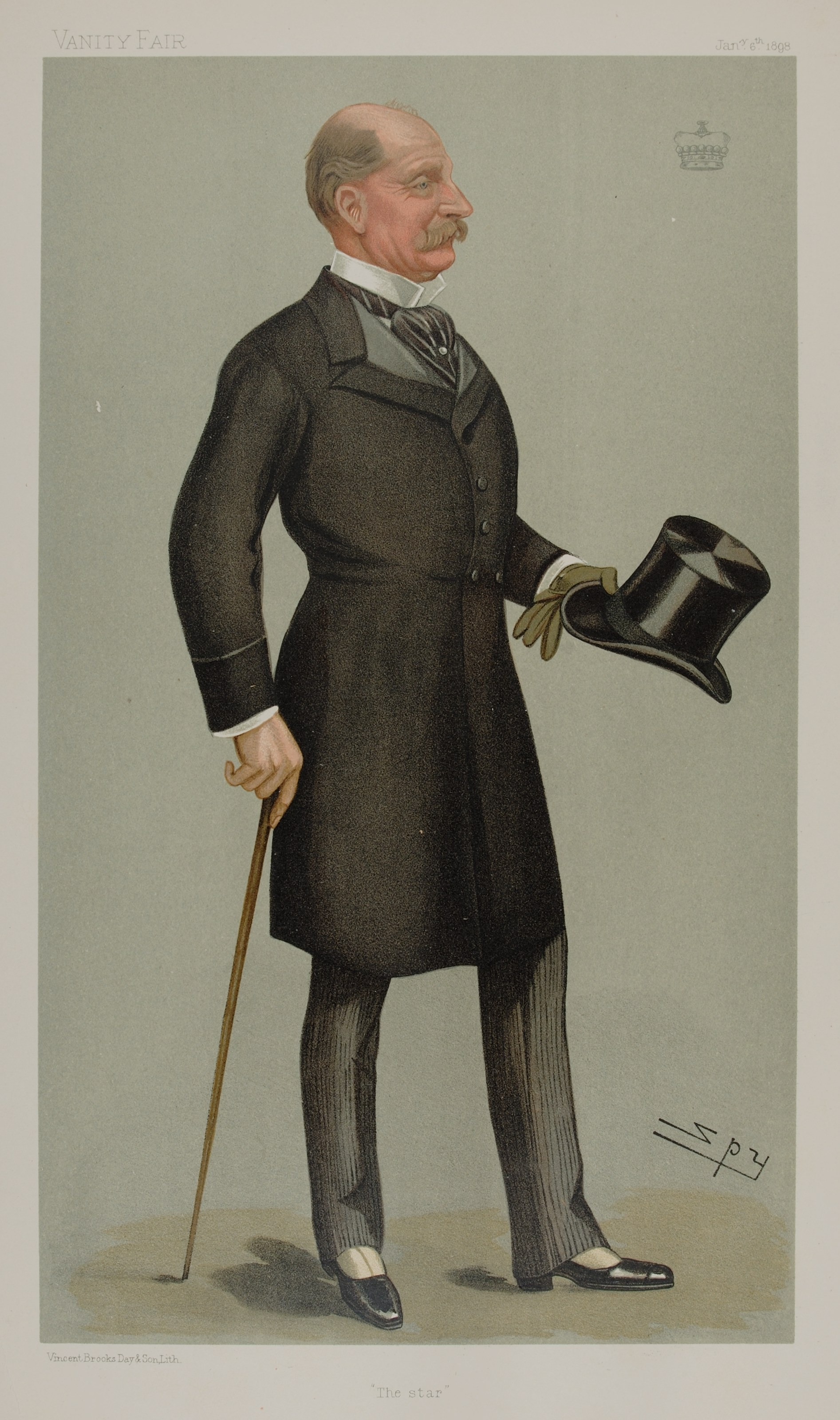 Men of the Day No. 700: Caricature of Evelyn Boscawen, 7th Viscount Falmouth (1847-1918). Caption read "The star".